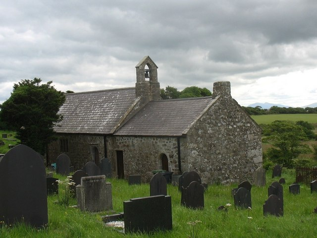 Eglwys Cwyllog Sant from the north-west